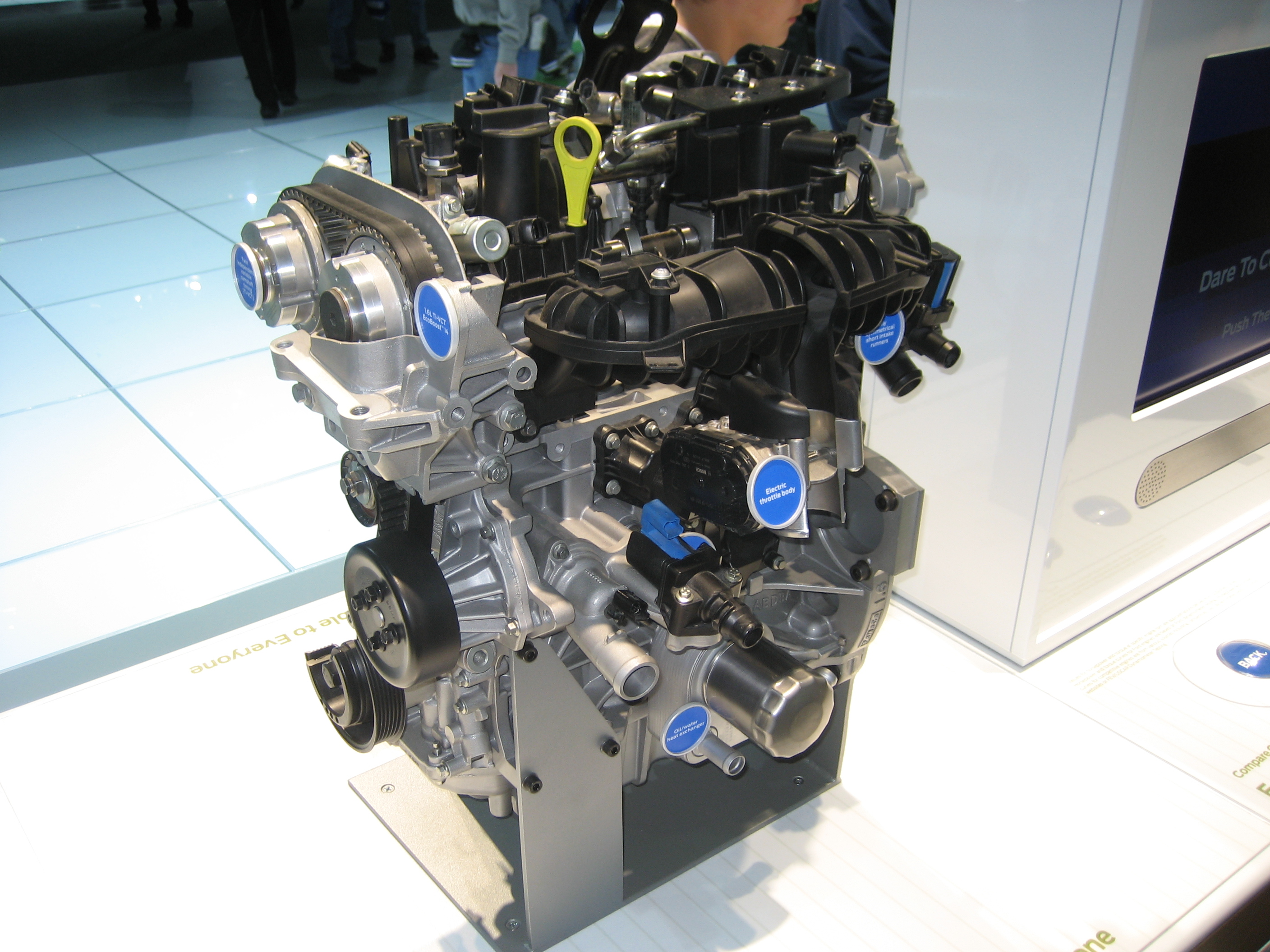 1.6 Ford Ecoboost demo engine.